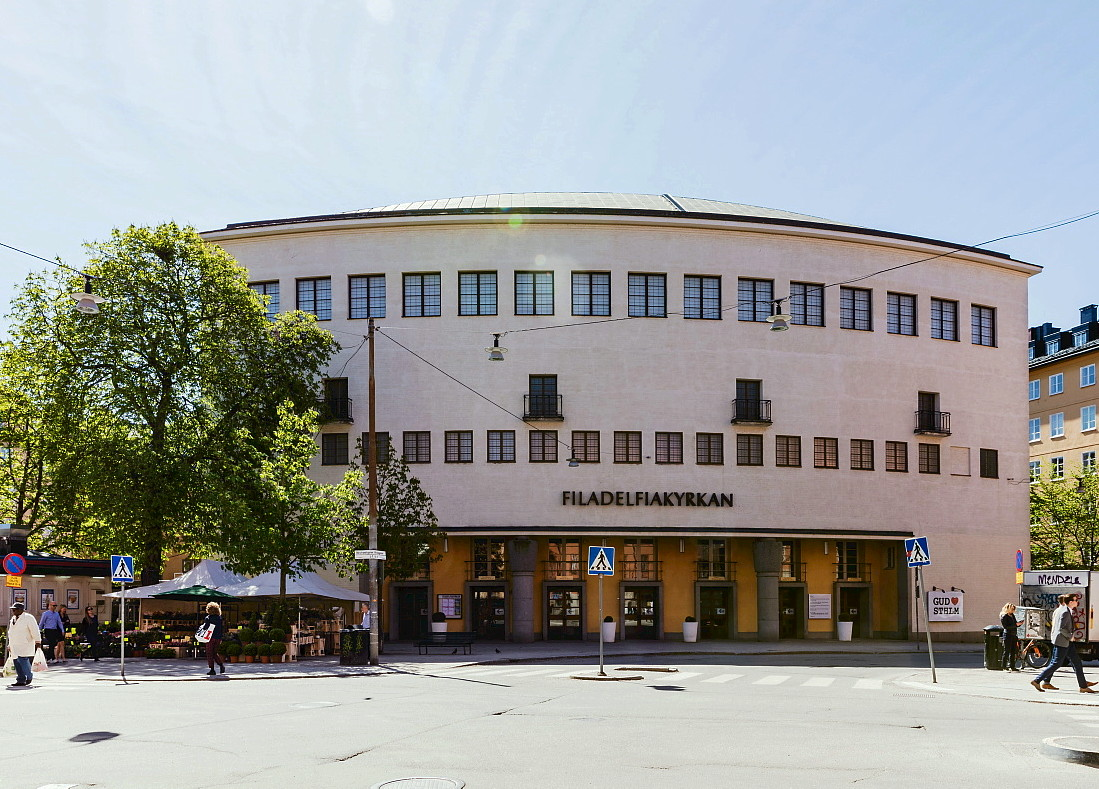 Filadelfiakyrkan. Fasad med entréer från Rörstrandsgatan mot söder. -FOTOGRAF: Ek, Mattias.BILDNUMMER:Stadsmuseet i Stockholm